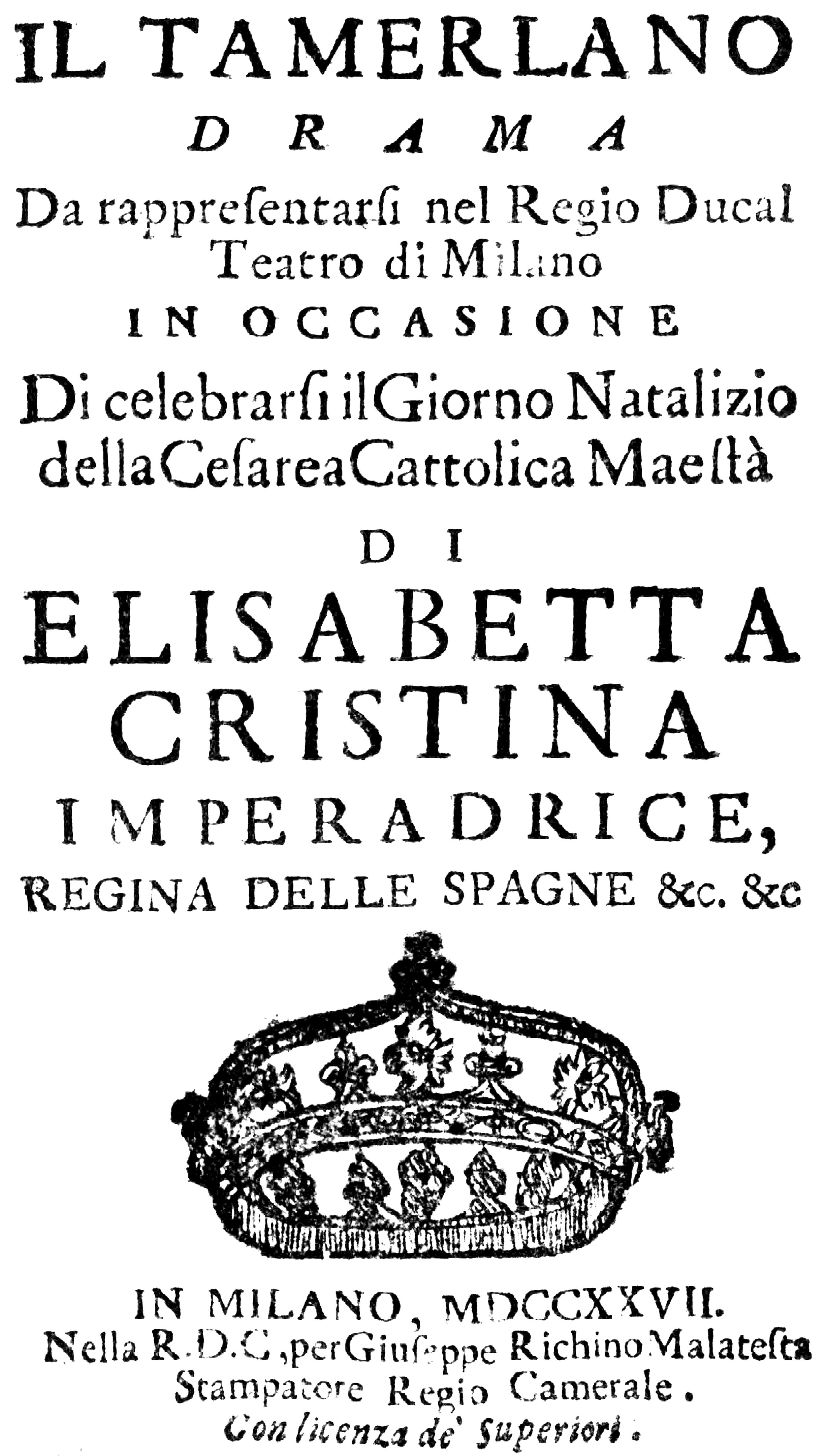 Giovanni Antonio Giay - Il Tamerlano - title page of the libretto - Milan 1727